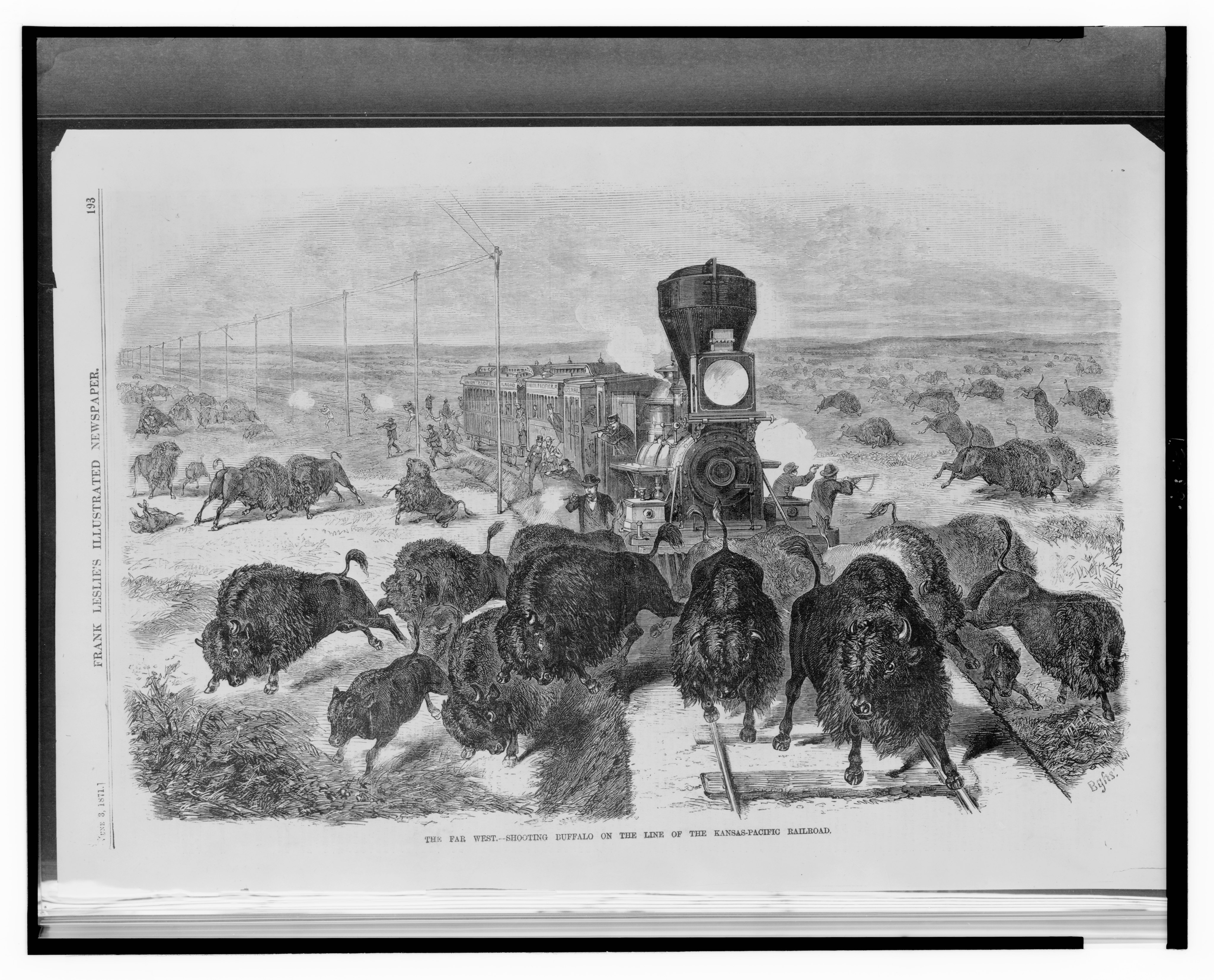 Title: The far west - shooting buffalo on the line of the Kansas-Pacific Railroad / Bghs. Abstract/medium: 1 print : wood engraving.